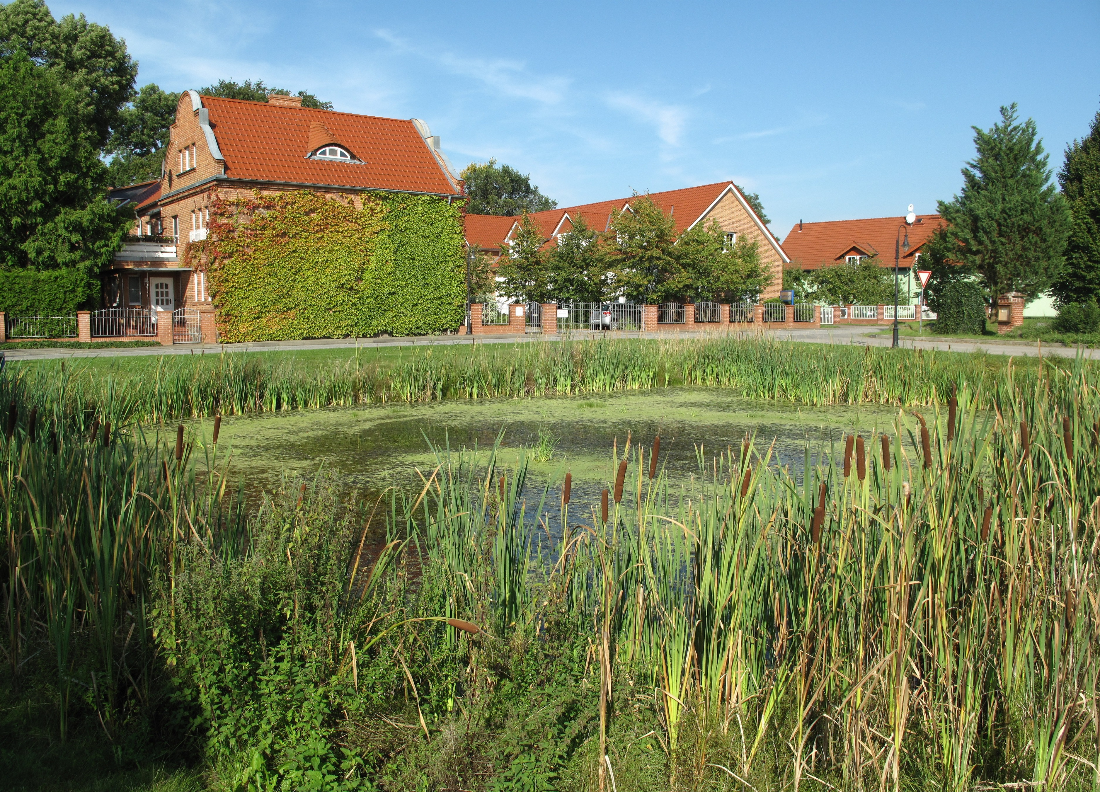 Village pond in Görsdorf. Görsdorf is a part of the municipality Tauche in the District Oder-Spree, Brandenburg, Germany.